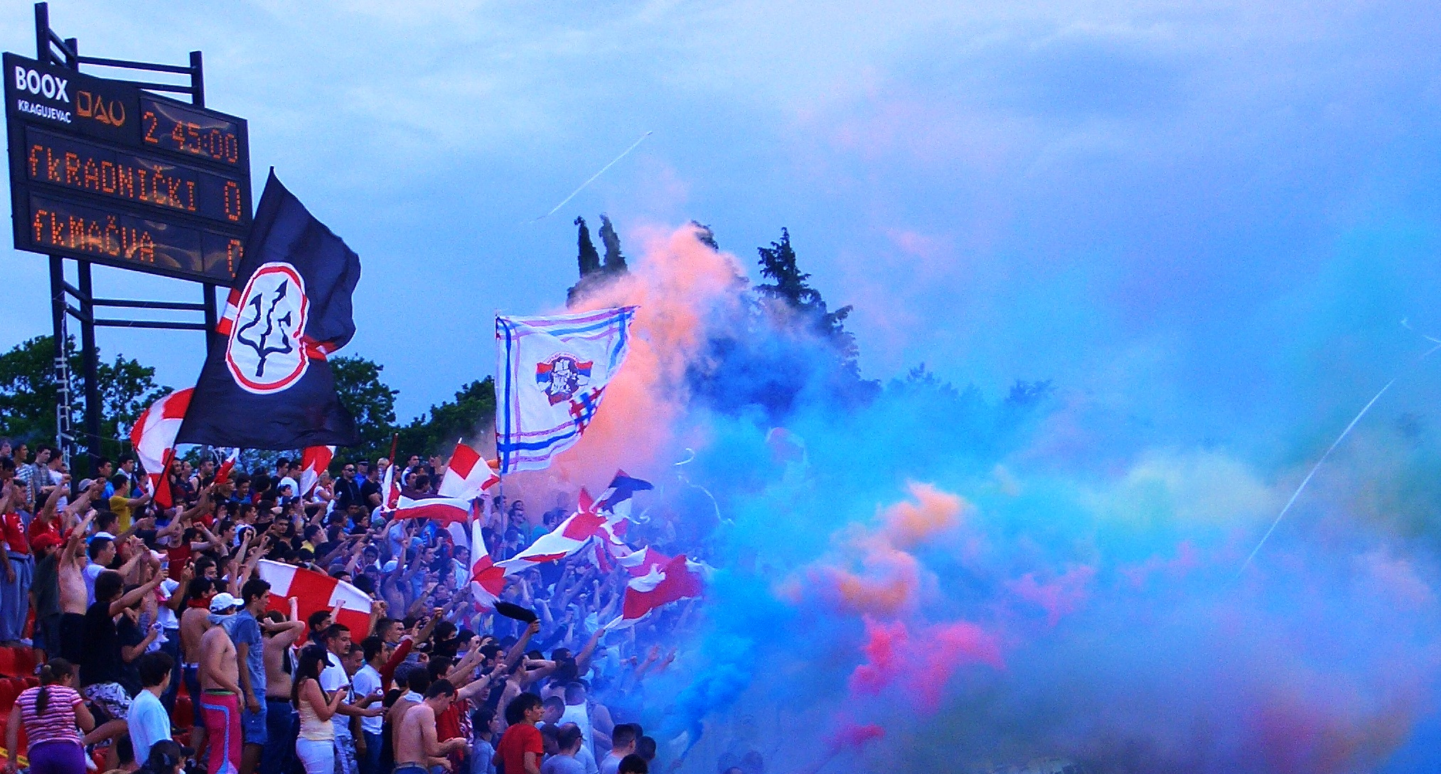 Supporters of Šumadija Radnički Kragujevac are known as Red Davils